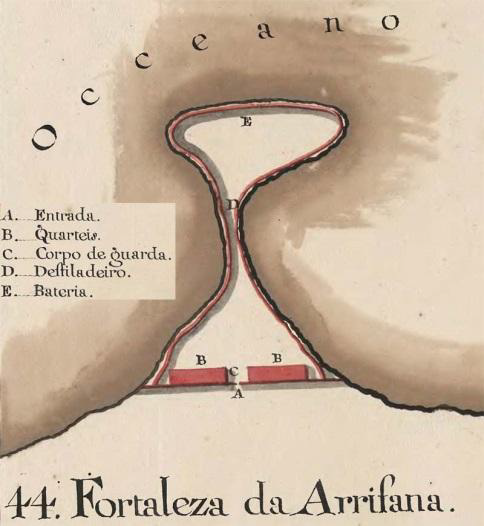 Plan of the Fort of Arrifana, Algarve Region, Portugal, made in 1754